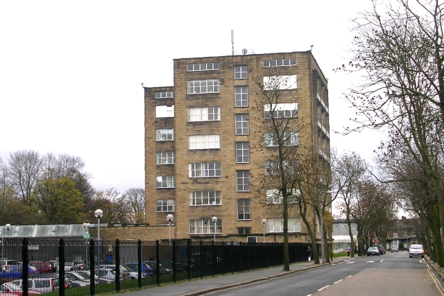 Calderdale College - Hopwood Lane